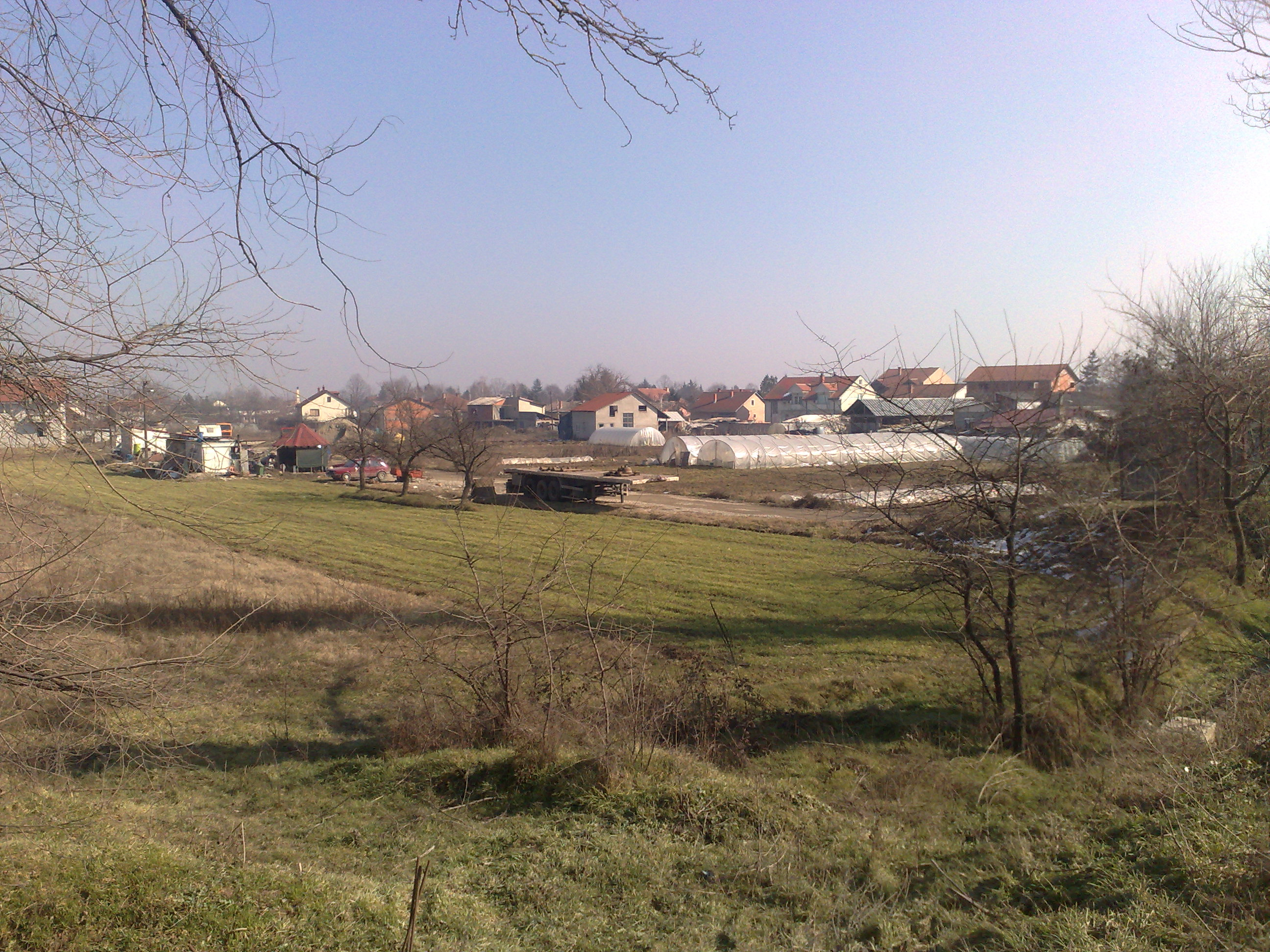 The entrance of Drachevo from west